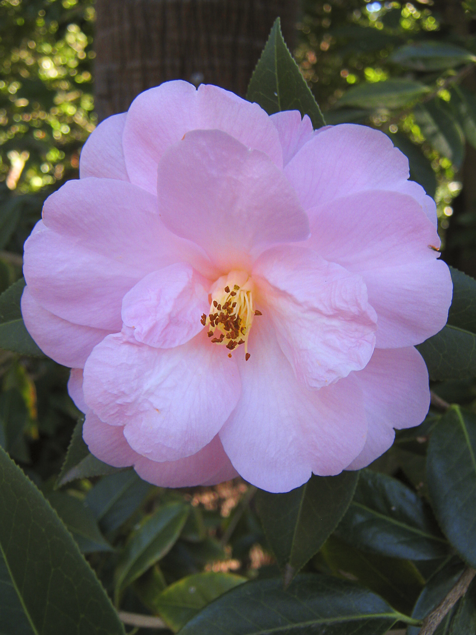 Camellia saluensis 'Margaret Waterhouse' by E.G. Waterhouse 1957; photographed in the Royal Botanic Gardens Melbourne